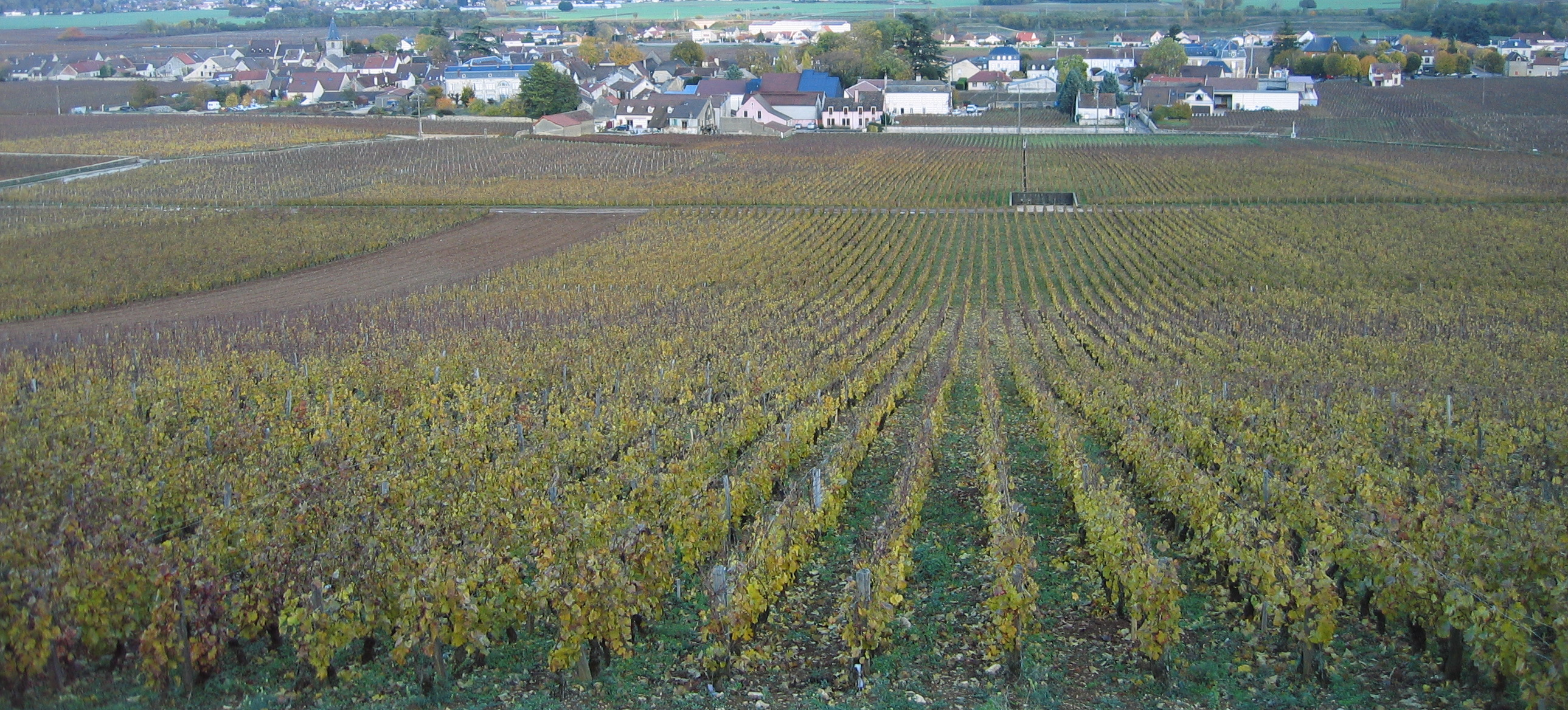 La Tâche vineyard as seen from above